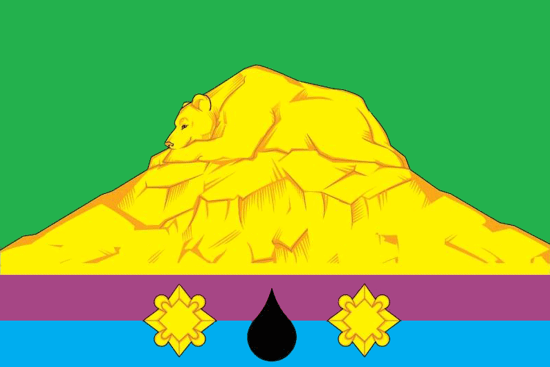 Flag of Ilsky, Krasnodar Territory, Russia